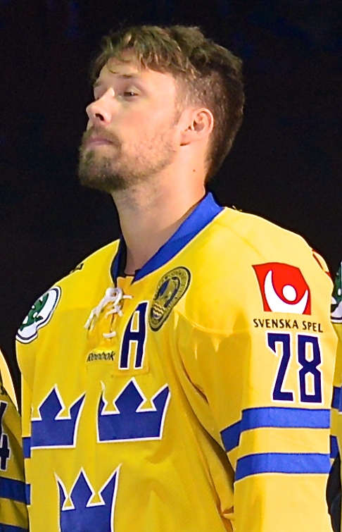 Dick Axelsson during Oddset Hockey Games against Russia (2-0) at the Ericsson Globe in Stockholm on May 4th, 2014.